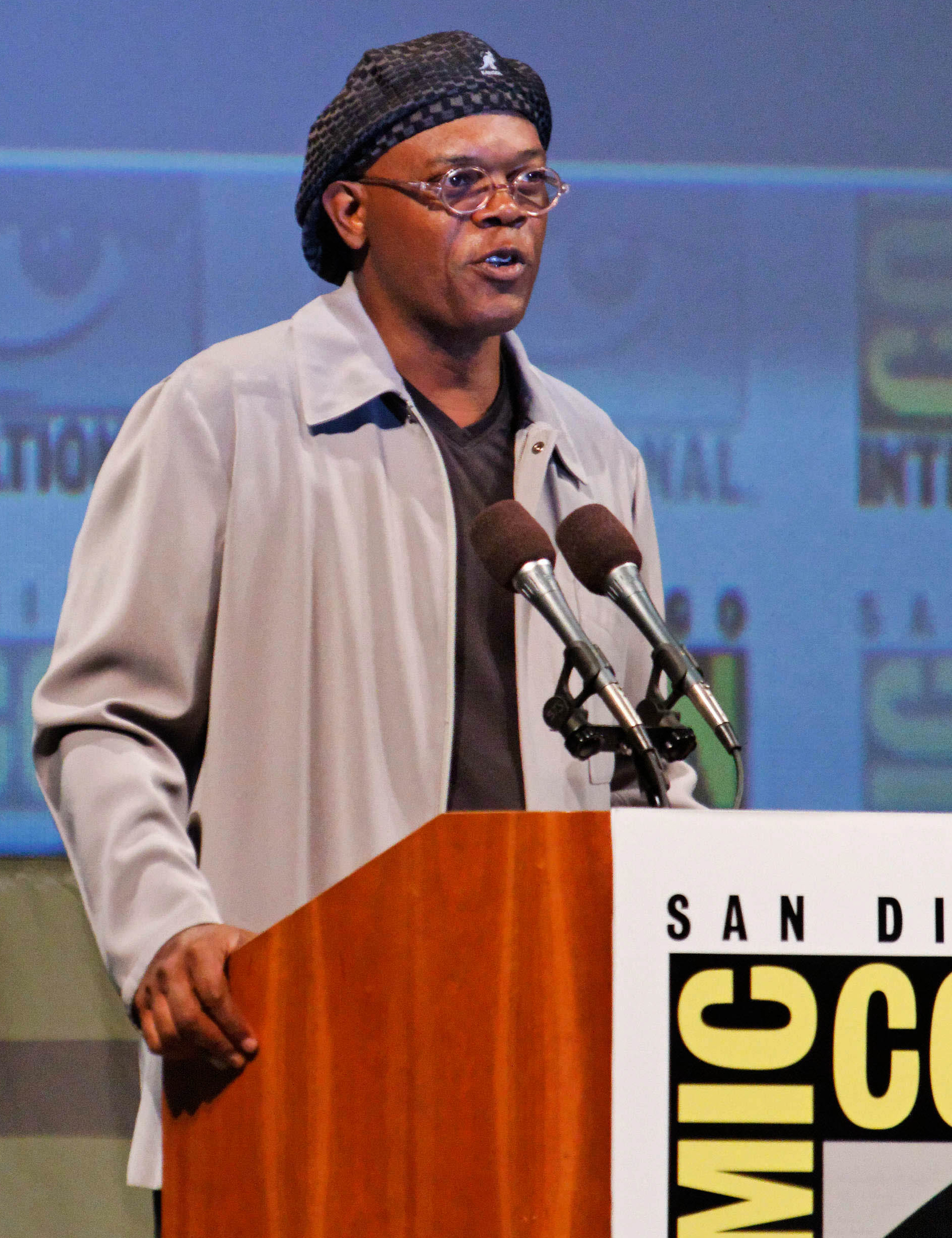 Samuel L. Jackson presenting at a panel for the 2012 film The Avengers at the 2010 San Deigo Comic-Con International.